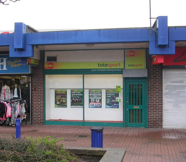 totesport - Bramley Shopping Centre